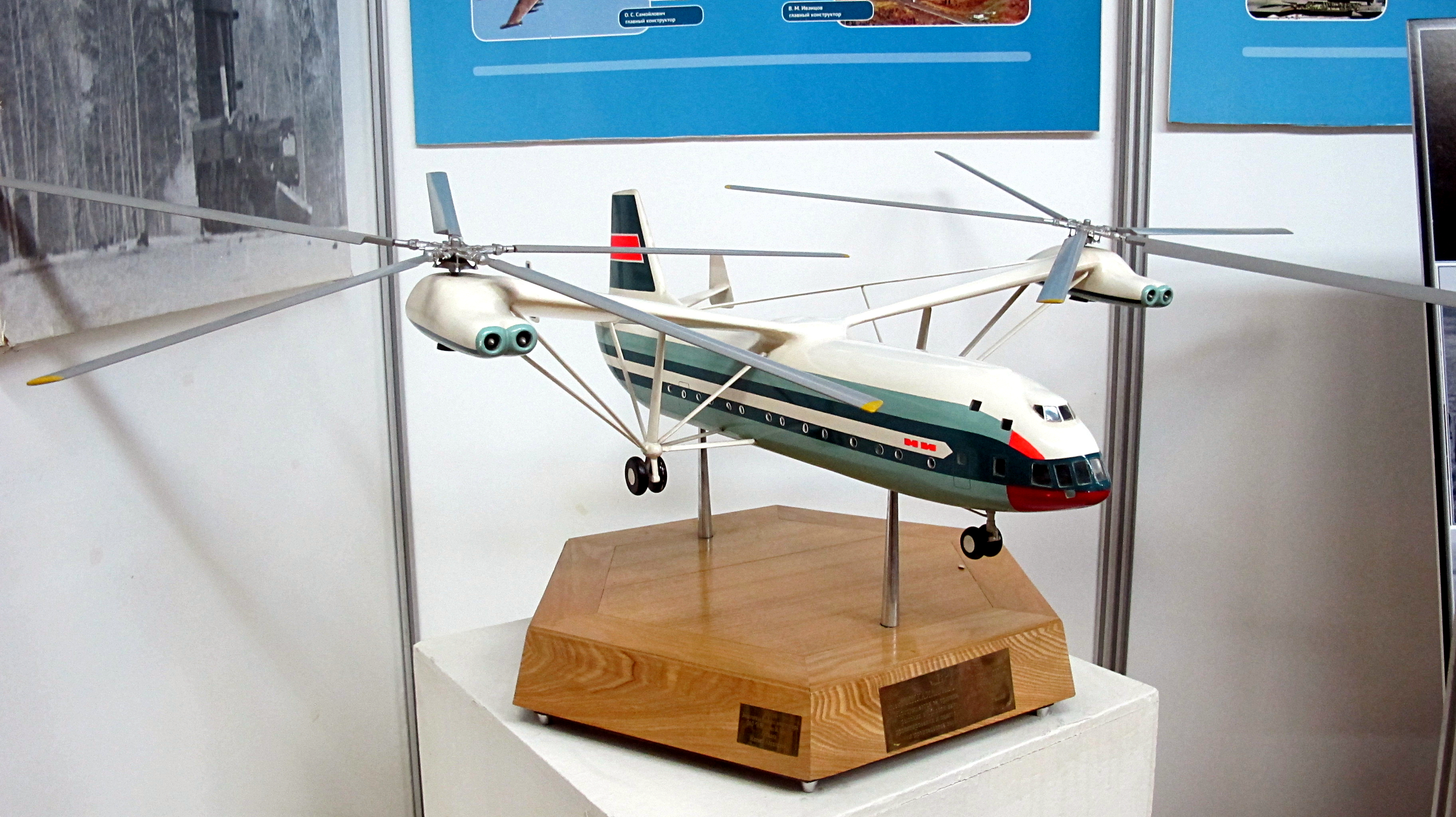 Model of Mil V-12. Museum of Moscow Aviation Institute.